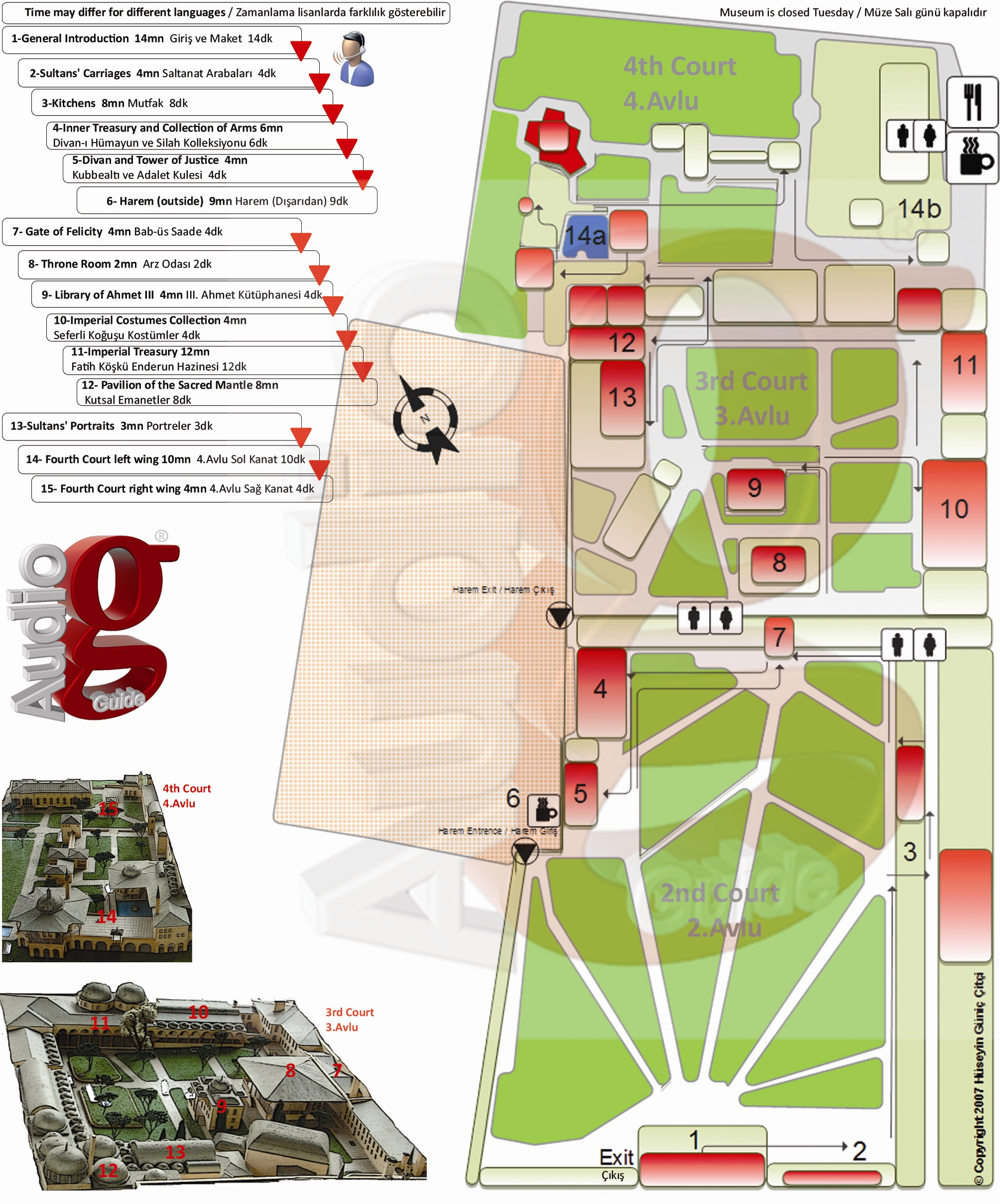 Topkapi Palace Audioguide visiting map